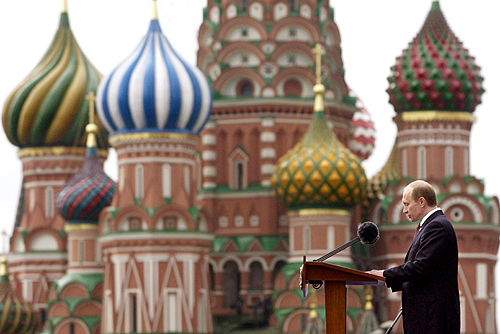 RED SQUARE, MOSCOW. Speaking at the military parade celebrating the sixtieth anniversary of victory in World War II.